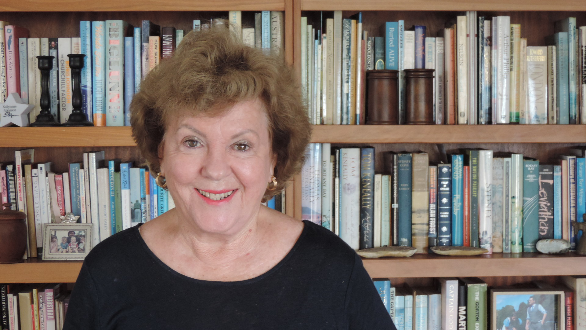 Sallyanne Atkinson, 2017